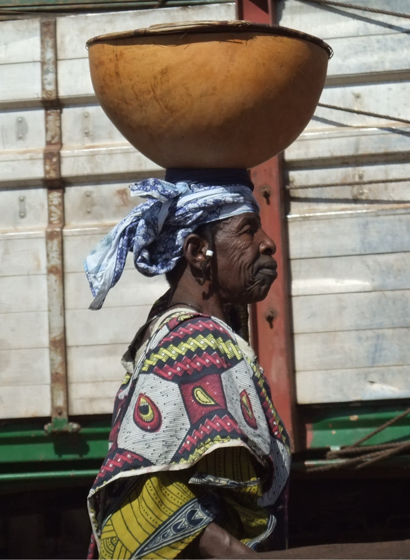 Mopti, Mali This is an image of "African people at work" from Mali